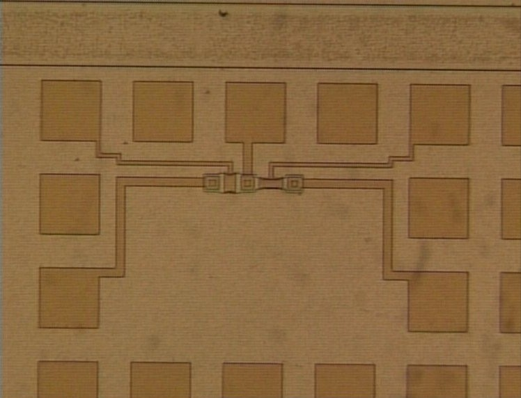 Title: MOSFET Desc: Example of a metal oxide semiconductor field-effect transistor Author: Twisp